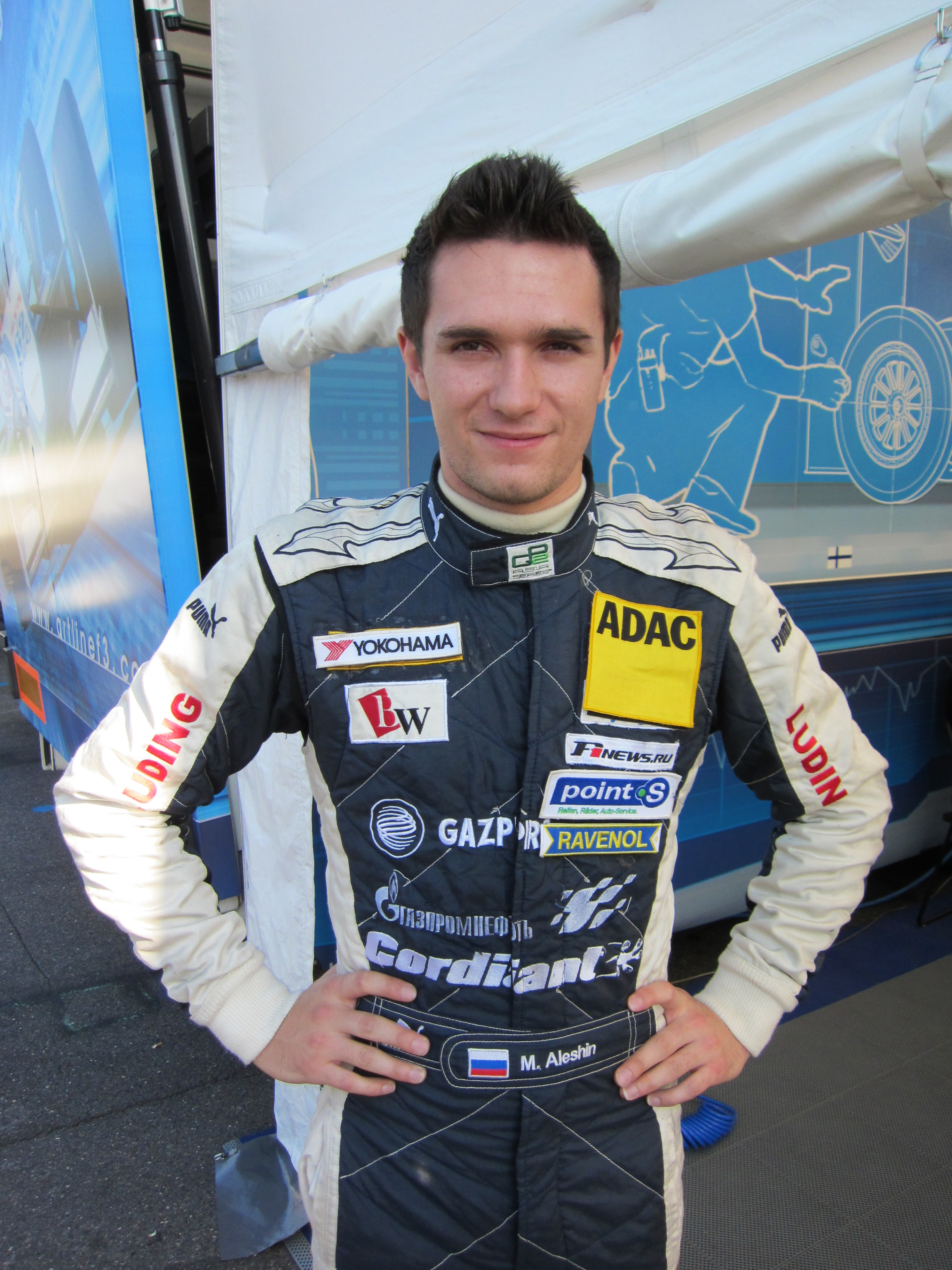 Mikhail Aleshin: the photo was taken during 2011's ADAC GT Masters race weekend at Hockenheim